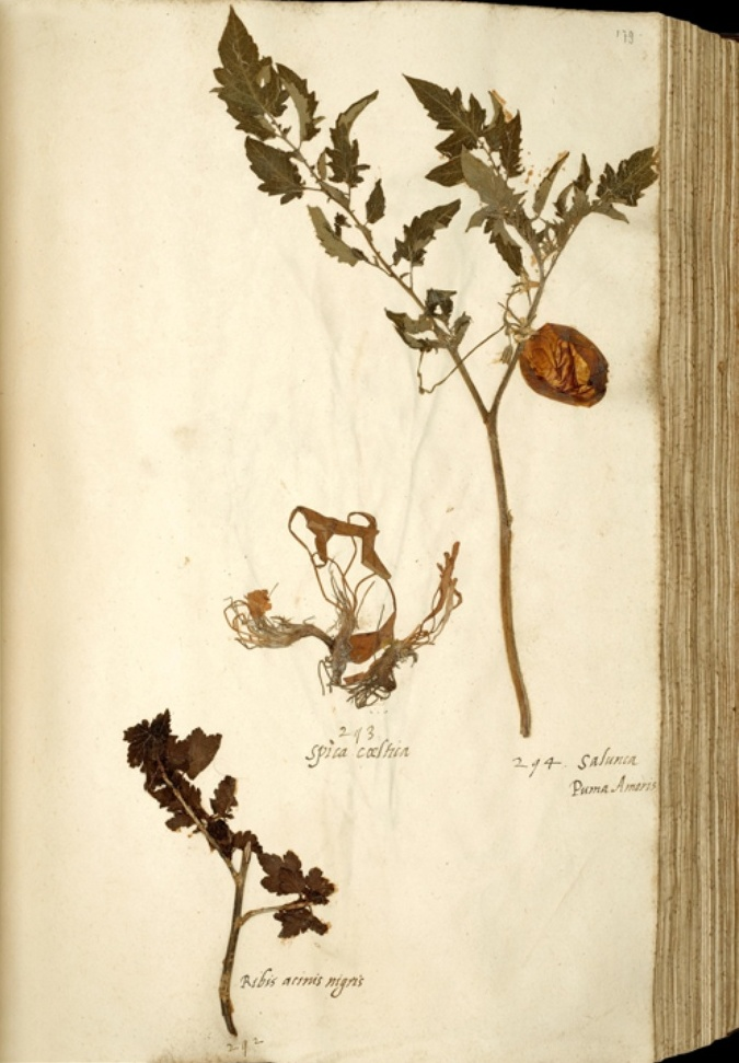 Solanum lycopersicum var. lycopersicum. Herbarium sheet with the oldest conserved tomato plants of Europe. Italian collection, 1542-1544. En Tibi herbarium at Naturalis, Leiden.